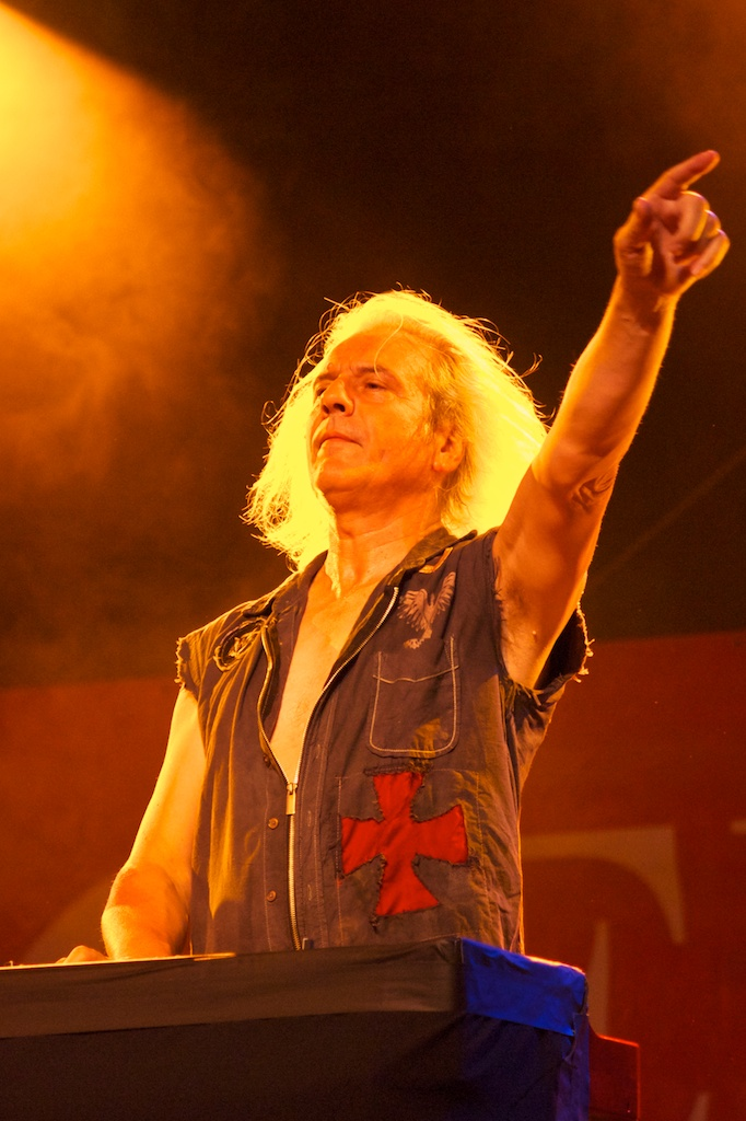 Uriah Heep in Narva (Estonia); The concert on the "Narva Bike" show. July 17th, 2010. Phil Lanzon- keyboardist